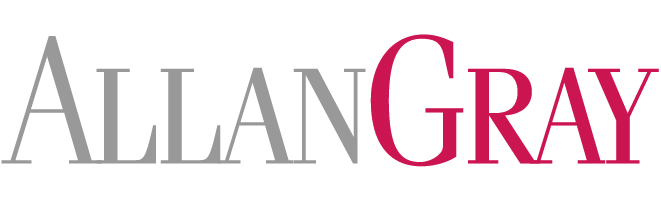 Allan Gray Logo